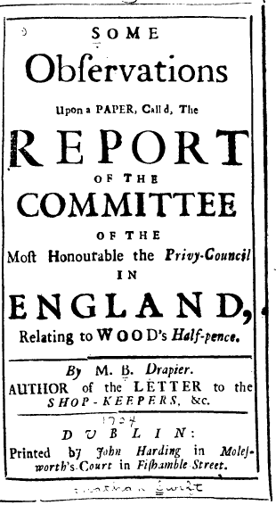 Title page from Jonathan Swift's To the Nobility and Gentry or To the Nobility and Gentry of the Kingdom of Ireland: Some Observations Upon a Paper, Call'd, The Report of the Committee of the Most Honourable the Privy-Council in England relating to Wood's Half-pence